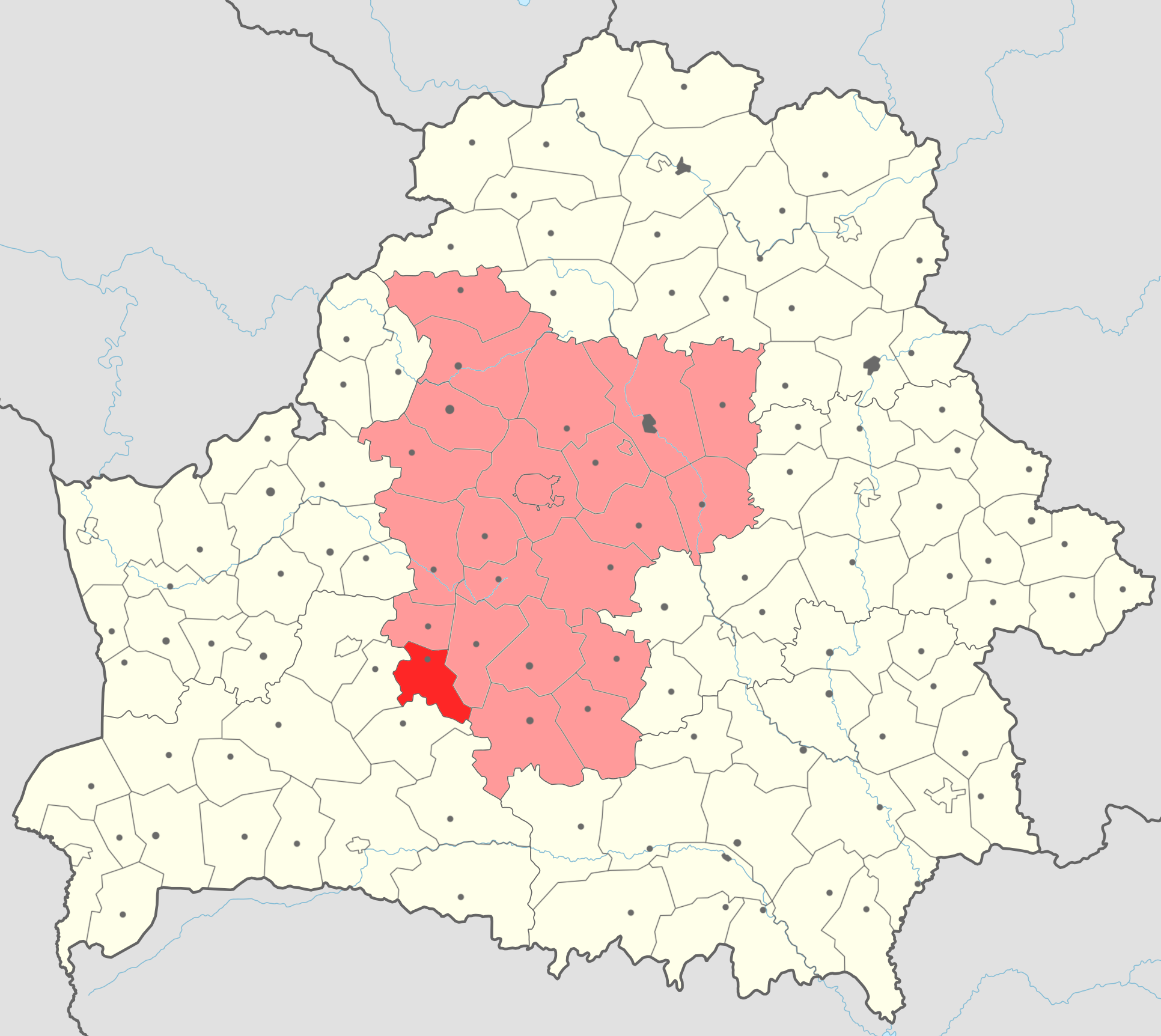 Map of Klieck (Kletsk) rayon (in red) with Minsk voblast' (in light red) on the map of Belarus.